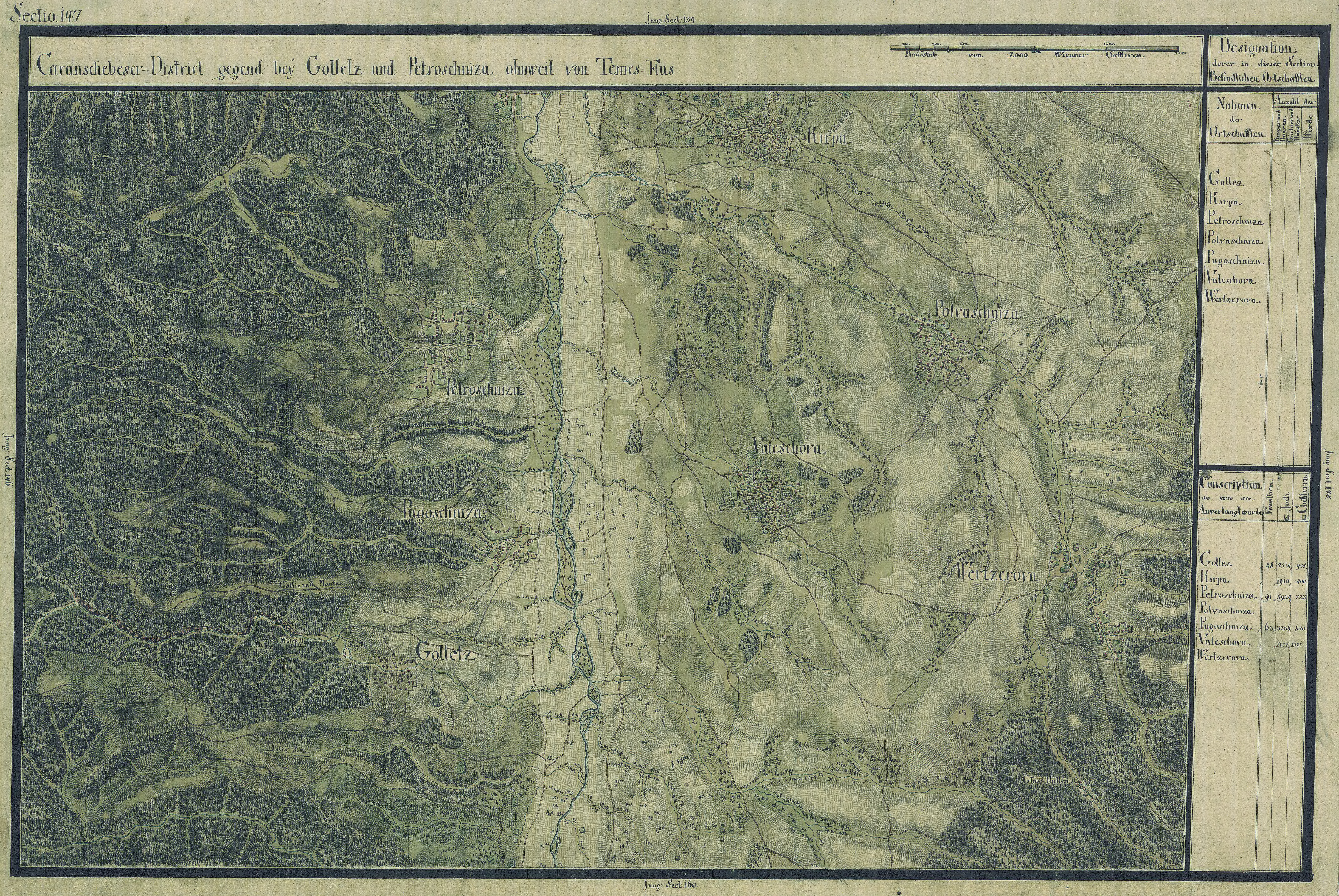 The Banat region in the cadastral maps: Josephinische Landesaufnahme, 1769-72. Josephinische Landaufnahme pg147